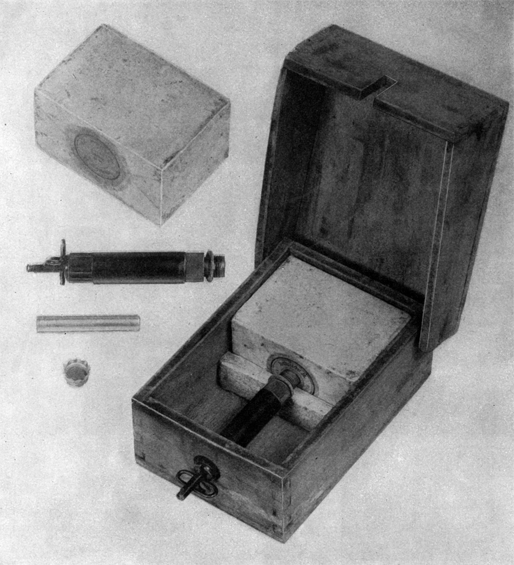 A German Second World War Schu-mine 42 anti-personnel landmine.